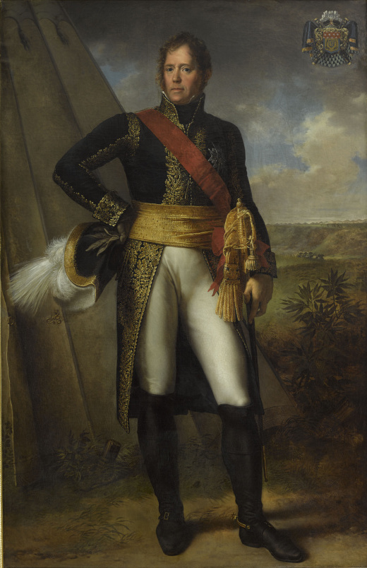 Portrait (Ney, Michel. Man. Marshal of France. Duke of Elchingen. Prince of Moscow. Standing. 3/4. Trimmings (on uniform, weapons, sword.